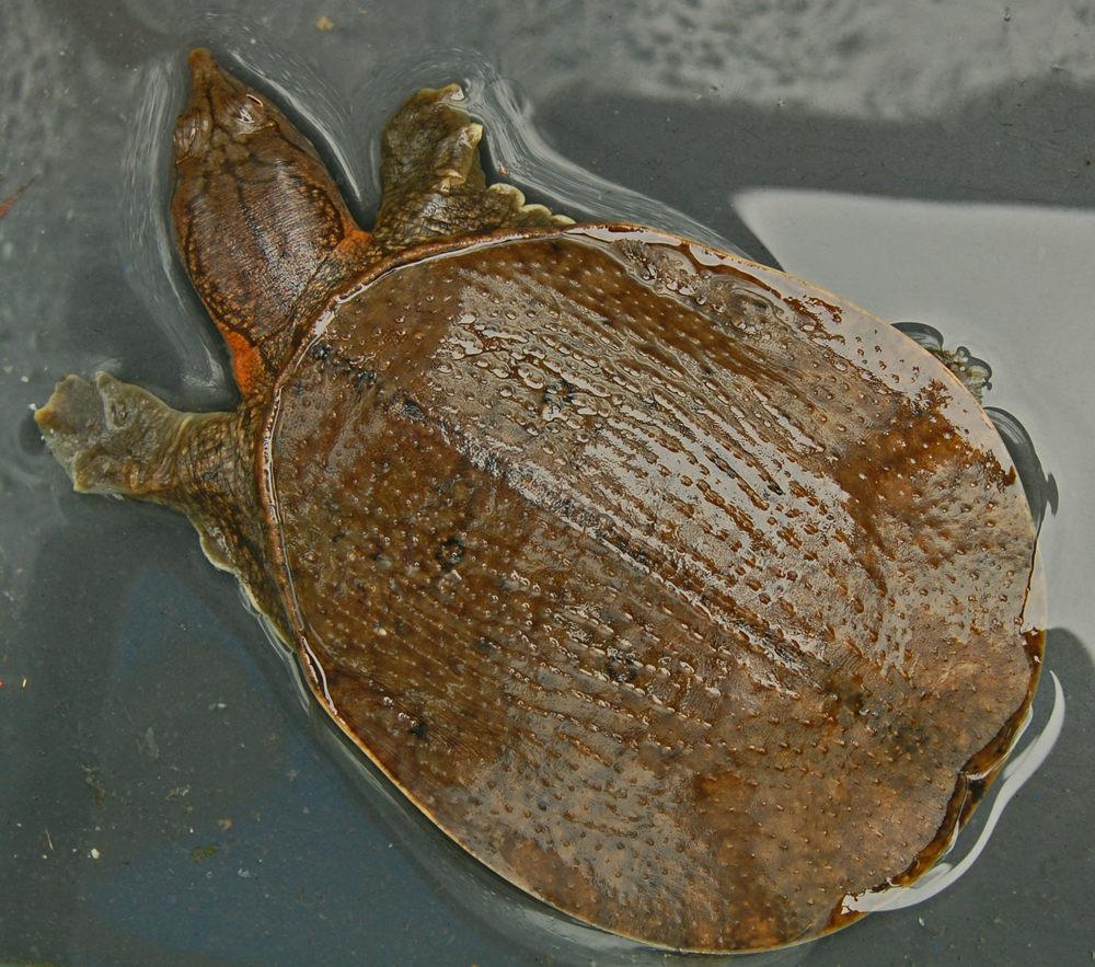 Dogania subplana, juvenile. From Bogor, West Java.